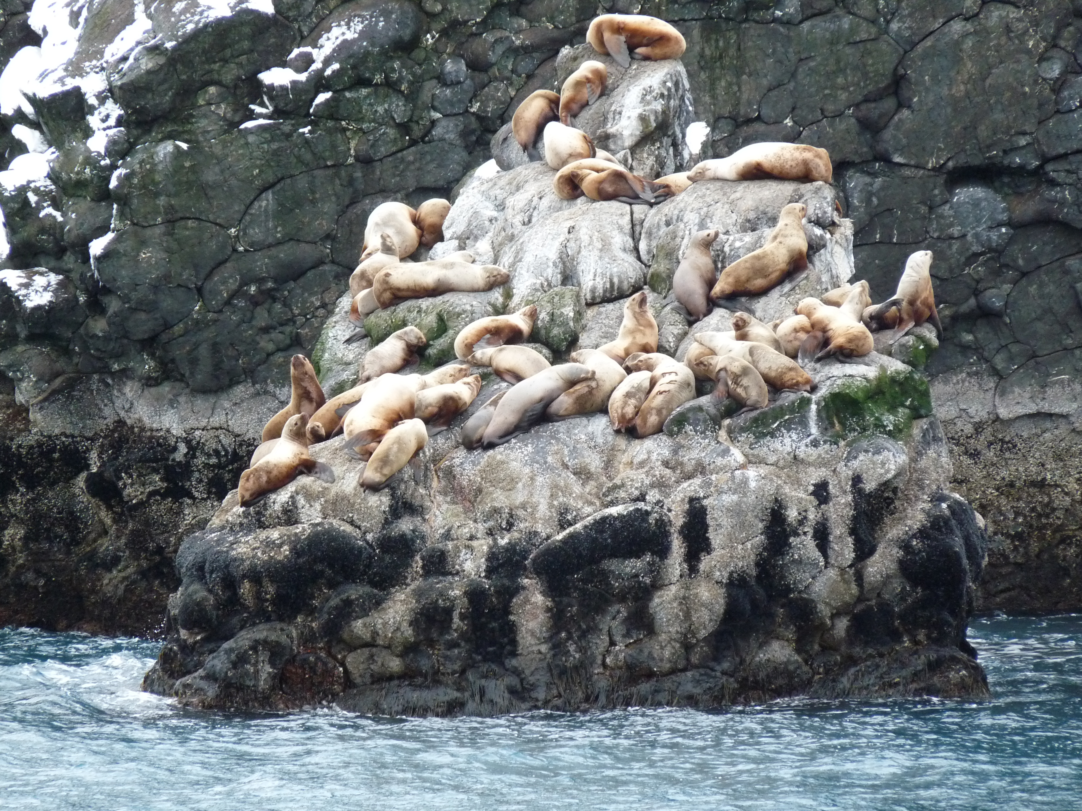 Sea lions in Kenai Fjords National Park